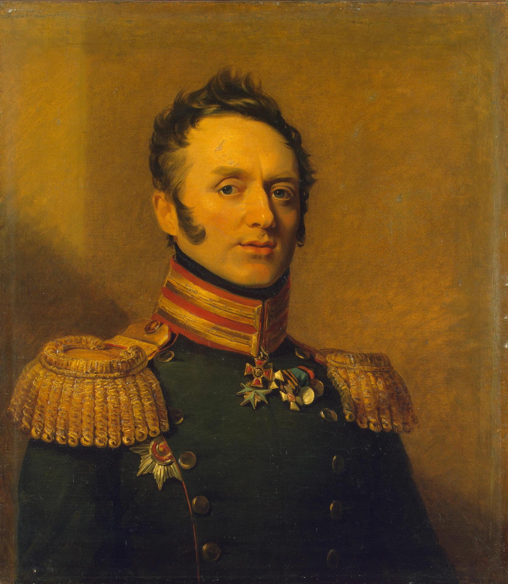 Ivan Fyodorovich Udom1-st (29.10.1768 – 18.06.1821) russian general